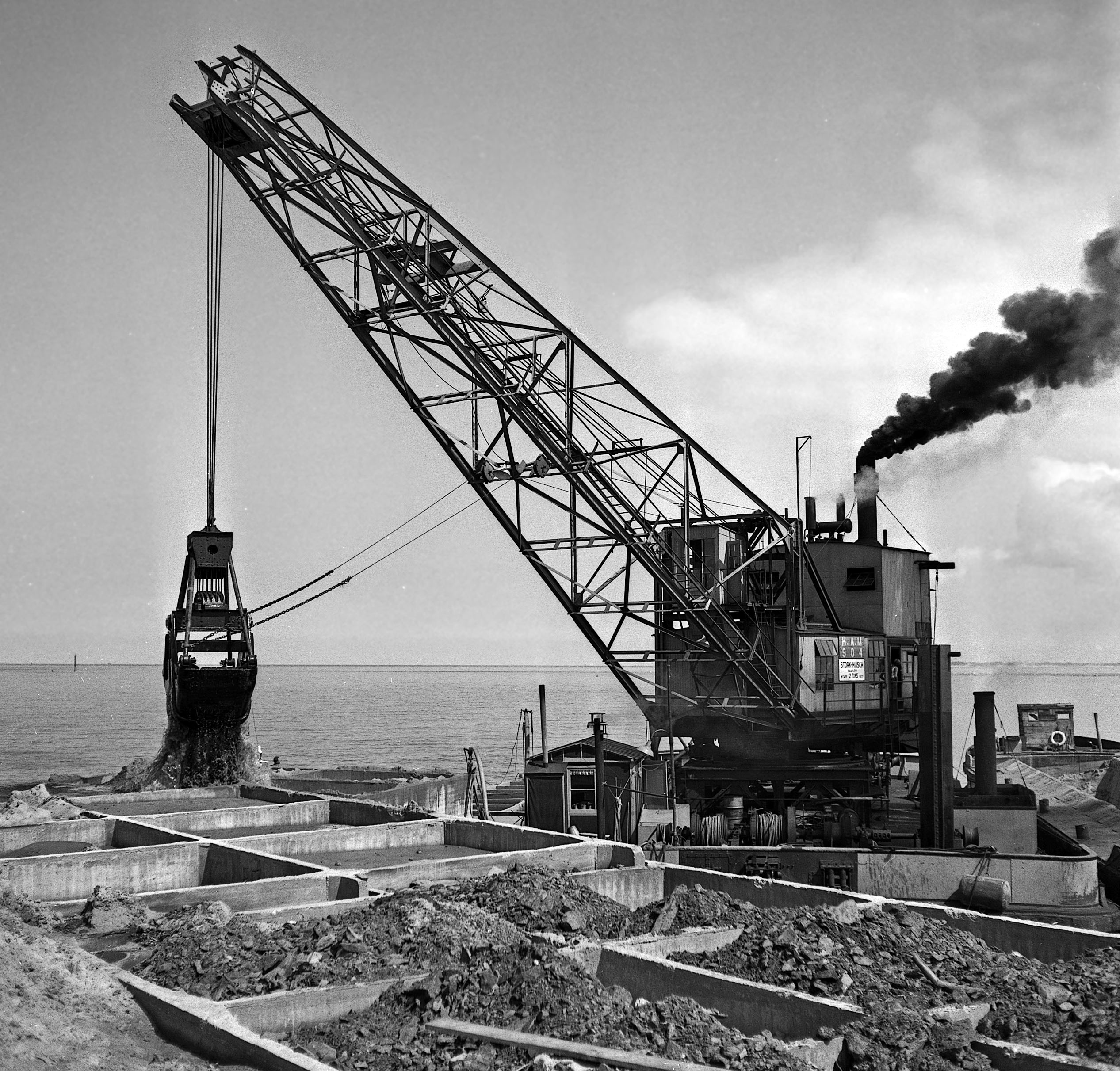 Delta works near Vrouwenpolder (Veere)